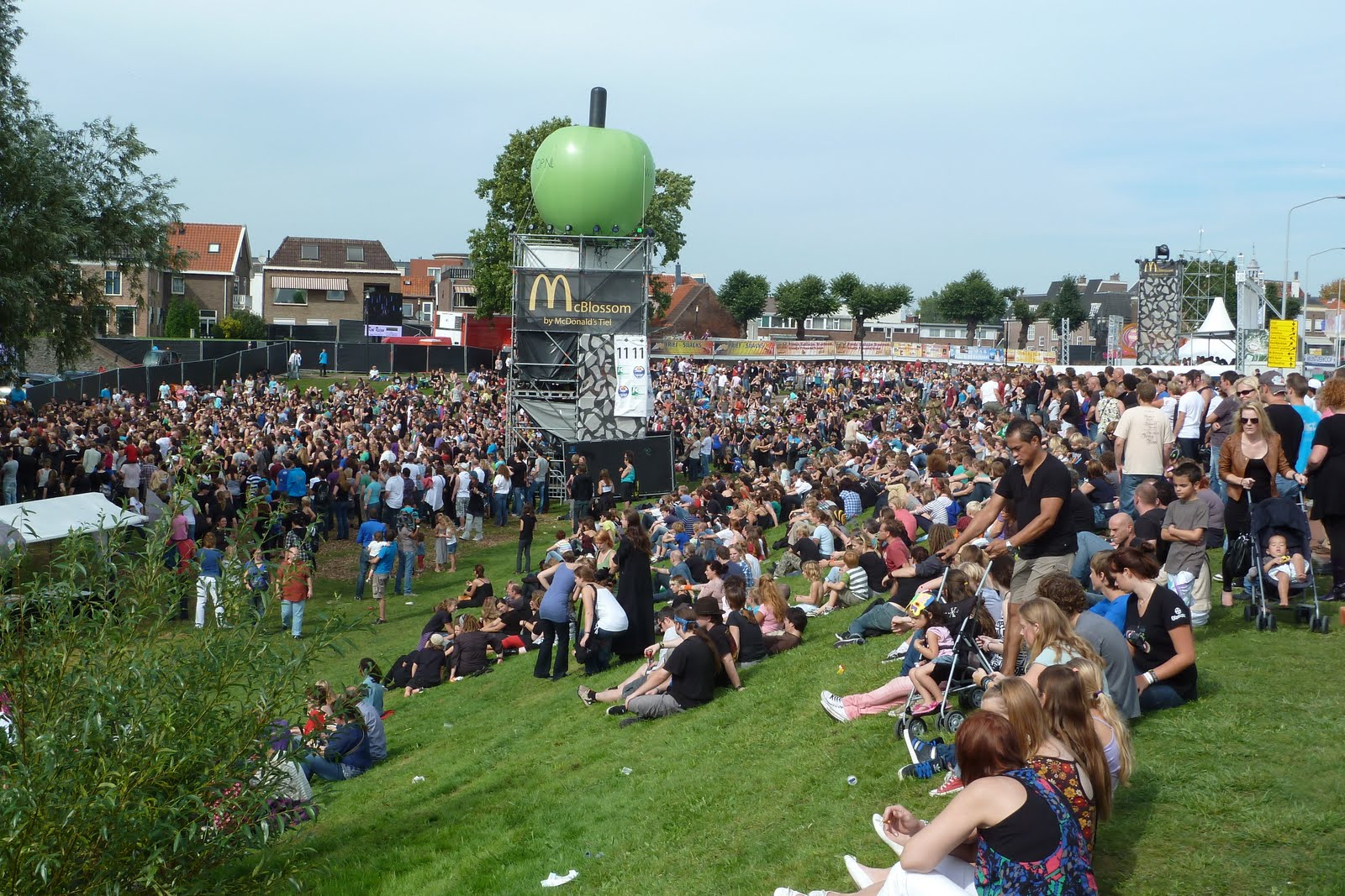 Publiek van Appelpop